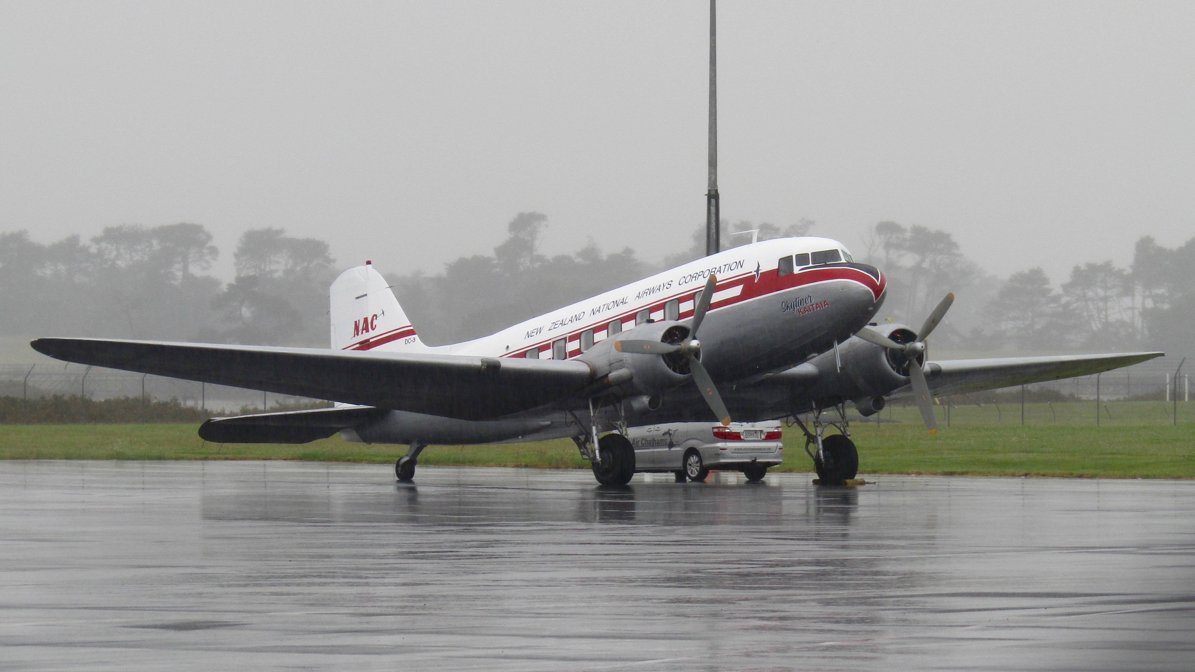 Air Chathams' sole Douglas DC-3C painted in a historic New Zealand National Airways Corporation (NAC) scheme. The aircraft, ZK-AWP, was historically operated by NAC prior to Air Chathams' purchase.